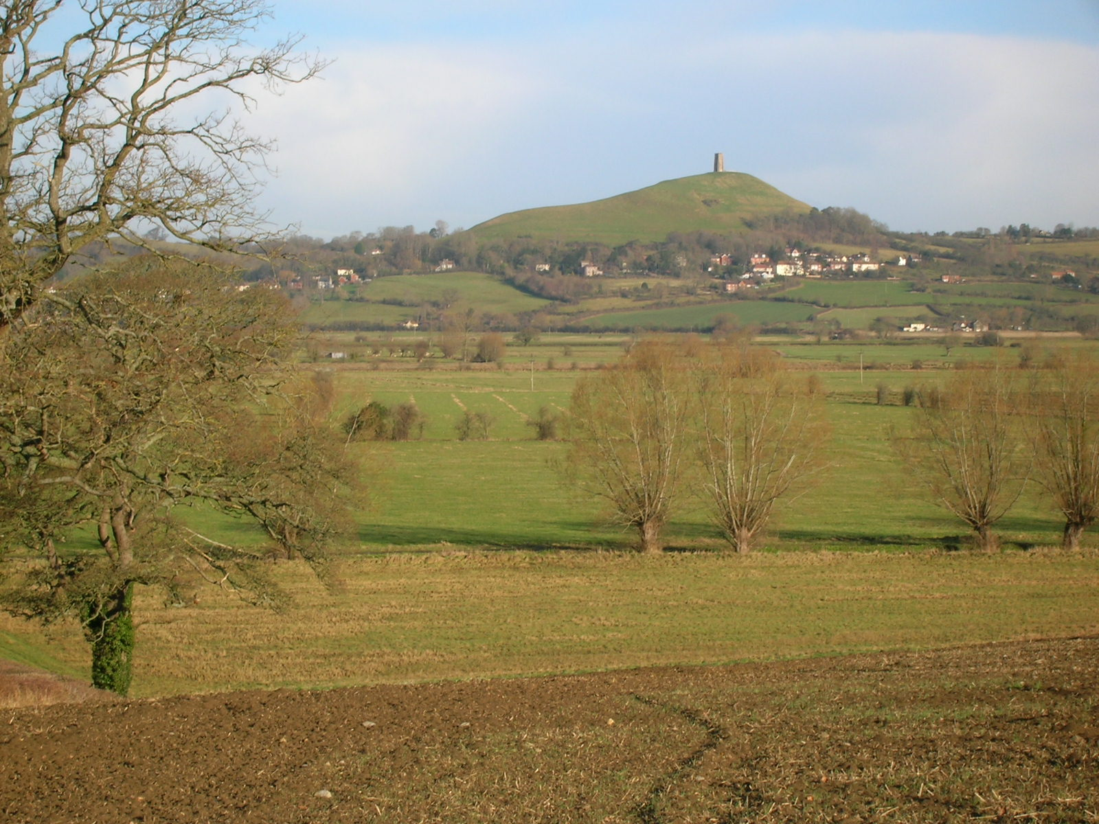 Glastonbury Tor